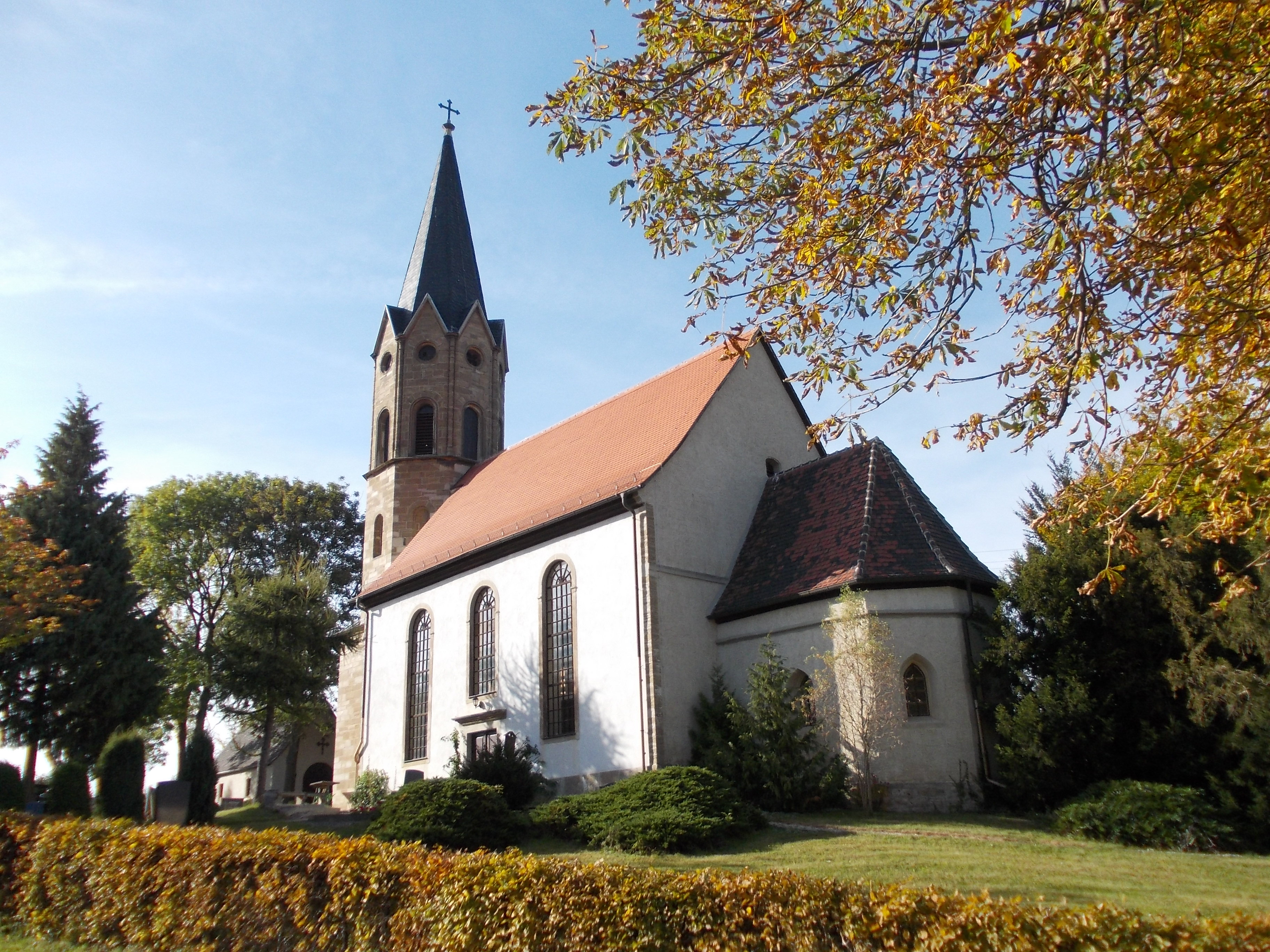 Rippicha church (Gutenborn, district of Burgenlandkeis, Saxony-Anhalt), work-place of the Lutheran pastor Oskar Brüsewitz